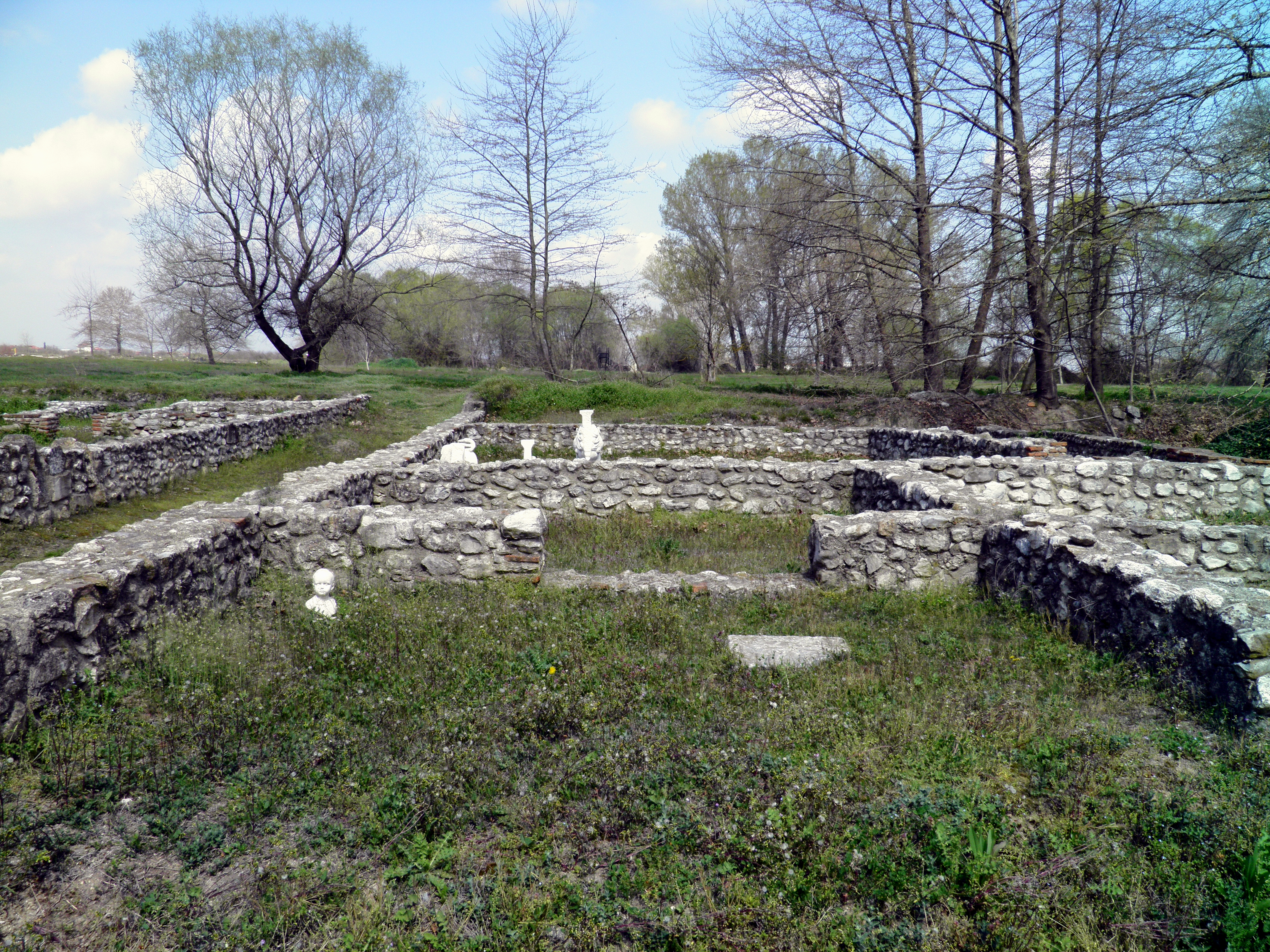 House of Zozas A spacious residence uncovered in the southeast sector of the city evidently belonged to a person named Zosas, as recorded in an inscription on the mosaic emblem on the floor of the central hall. Most of the rooms in the building had mosaic floors decorated with geometric patterns and panels with depictions of birds. A strange construction with three cists lined with marble is preserved in the central hall, while a shrine alcove with pedestral of a small statue survives in the southeast room. House of Leda The house of Zosas was but a stone's throw from the south wall of the city and separated by only a narrow cobbled passage from the adjacent «House of Leda», which owes its conventional name to a table support with representation of Leda and the swan sculptured in the round, which adorned the formal hall of the residence. Set on the south of the hall were two other table supports, one with a representation of Dionysos in relaxed pose, and the other with a hybrid figure, with head and foot of a lion. Two sculptured busts of children, with the distinctive hairstyle of devotees of the goddess Isis, were also found in the same room.